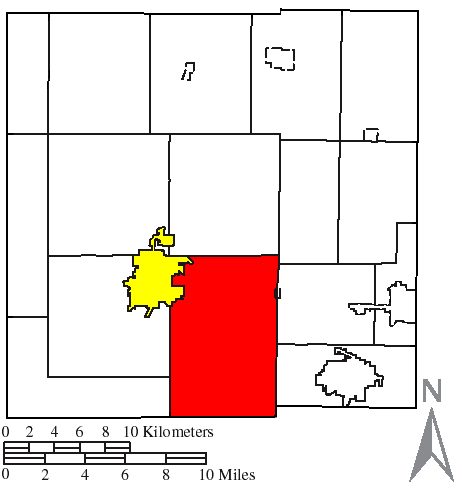 Made by the US Census and modified by myself